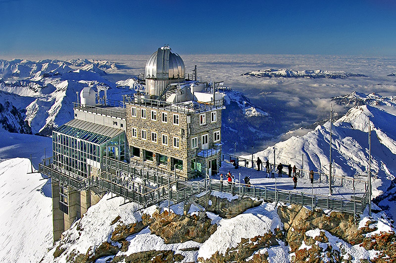 Sphinx Observatory - aerial photo